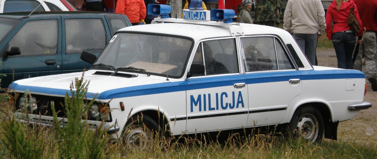 FSO 125p in Milicja Obywatelska markings (Polish Police during communist period). The 10th International Rally of Historical Army Vehicles in Darłowo, Poland